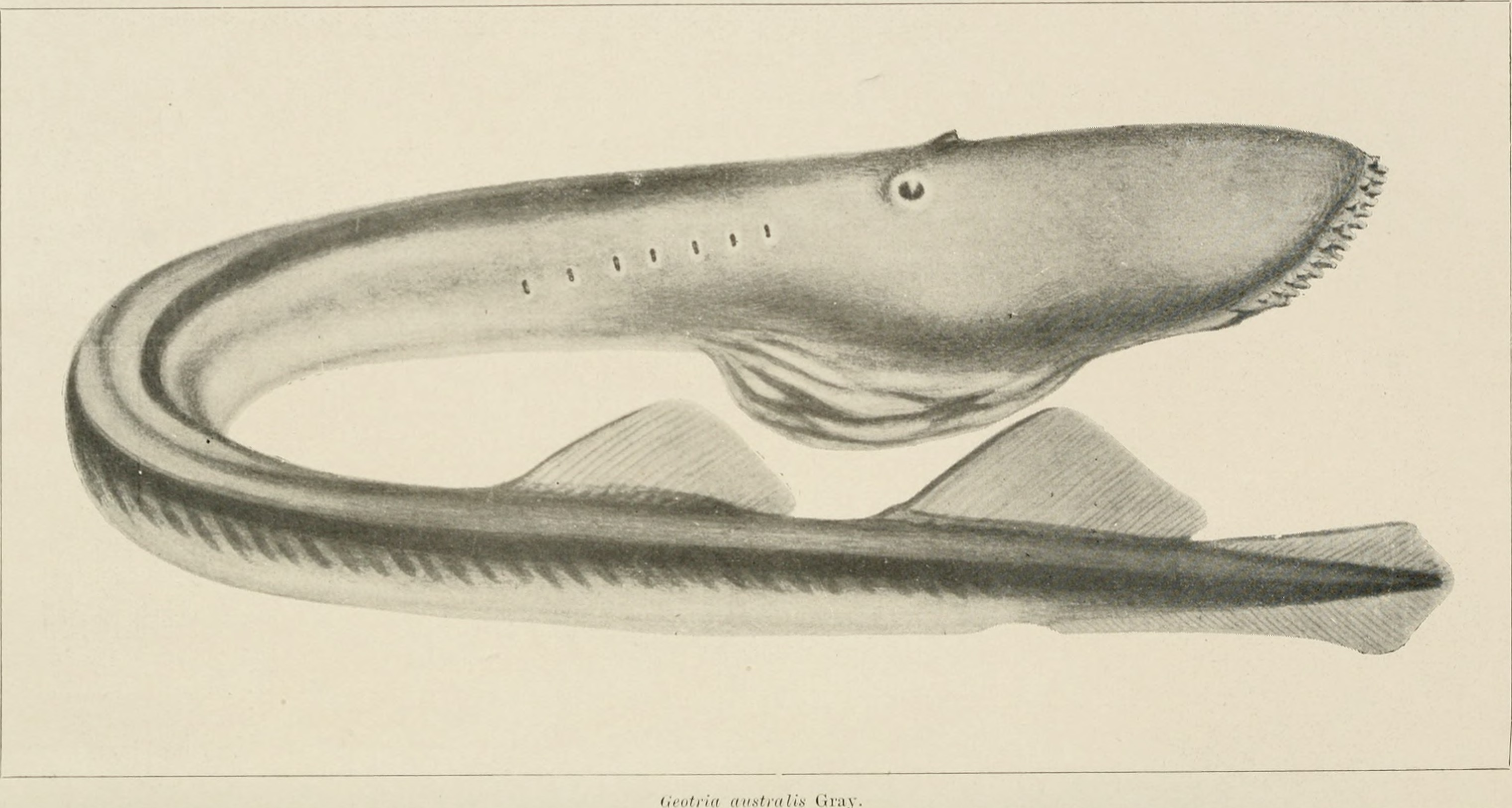 Title: Anales del Museo Nacional de Historia Natural de Buenos Aires Year: 1911-1923. (1910s) Authors: Museo Nacional de Historia Natural de Buenos Aires Subjects: Natural history; Natural history Publisher: Buenos Aires : Impr. y Casa Editora "Juan A. Alsina" Text Appearing Before Image: ' Text Appearing After Image: '